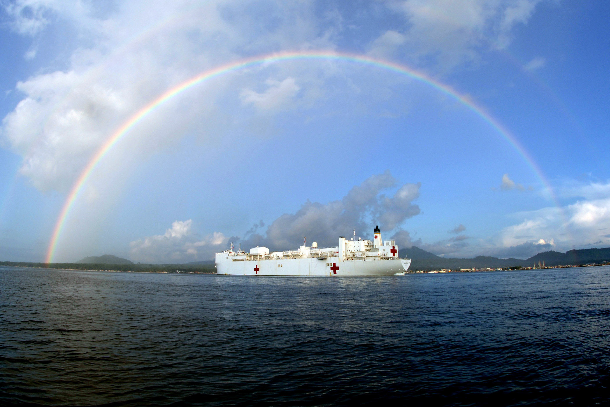 060608-N-6501M-003 Jolo, Philippines (June 8, 2006) - The U.S. Military Sealift Command (MSC) Hospital ship USNS Mercy (T-AH 19), anchored off of the coast of Jolo City. Since its arrival, Mercy's staff has assisted thousands of local citizens with medical and dental care. During its stay, this care was provided by a portion of Mercy's staff working side by side with their Filipino counterparts at several medical centers in the city, as well as patients being given care on the ship itself. Mercy is on a five-month humanitarian deployment to South Asia, Southeast Asia, and the Pacific Islands. U.S. Navy photo by Chief Photographer's Mate Edward G. Martens (RELEASED)